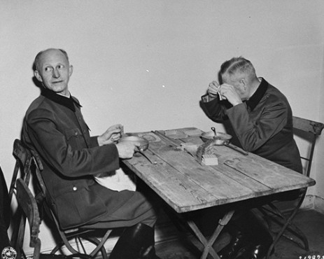 Defendants Alfred Jodl (left) and Wilhelm Keitel (right) eat in a makeshift dining room adjacent to the courtroom at the International Military Tribunal trial of war criminals at Nuremberg.